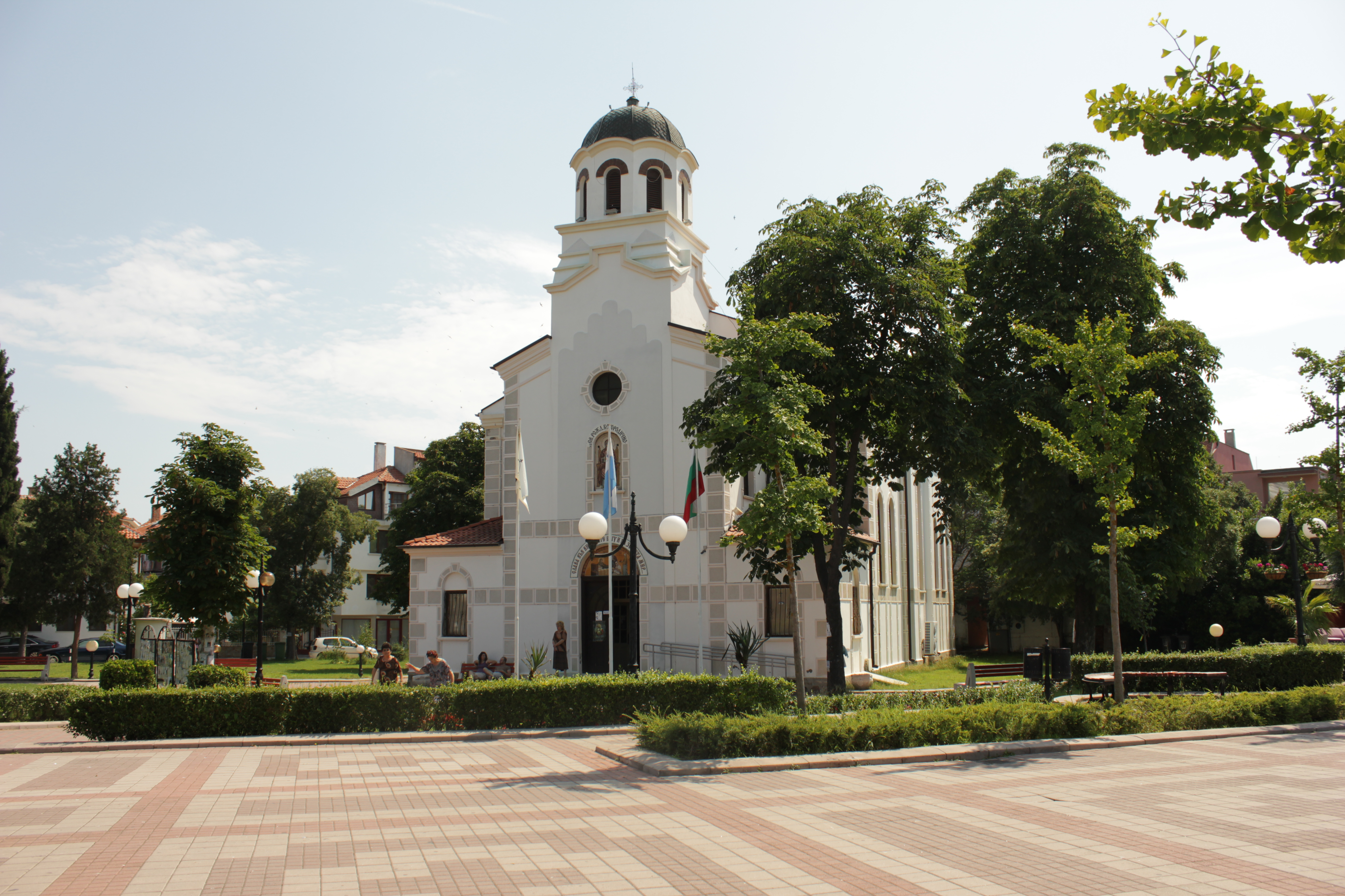 Church of the Birth of the Most Holy in Pomorie